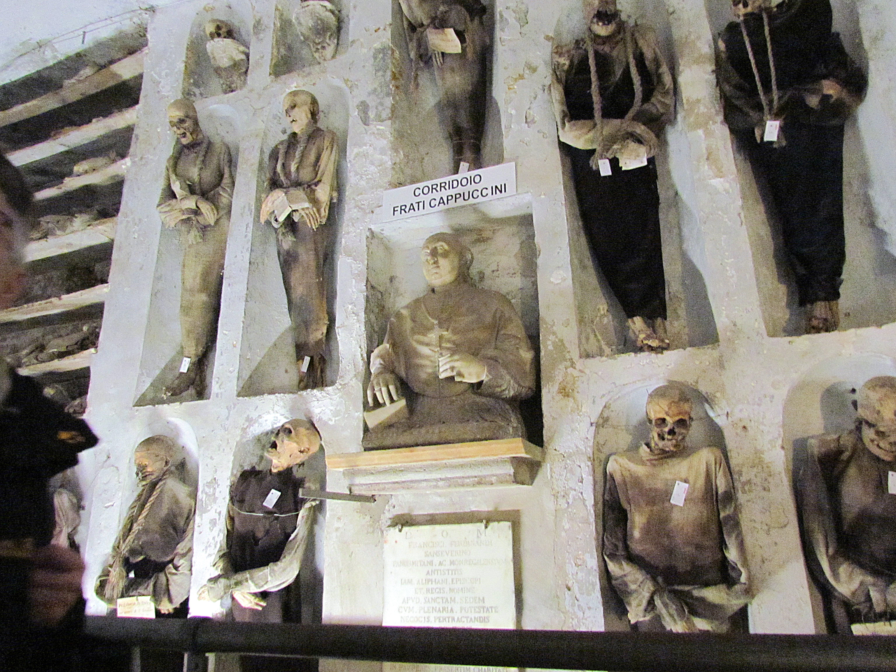 Hall of Monks, Capuchin catacombs (Palermo)